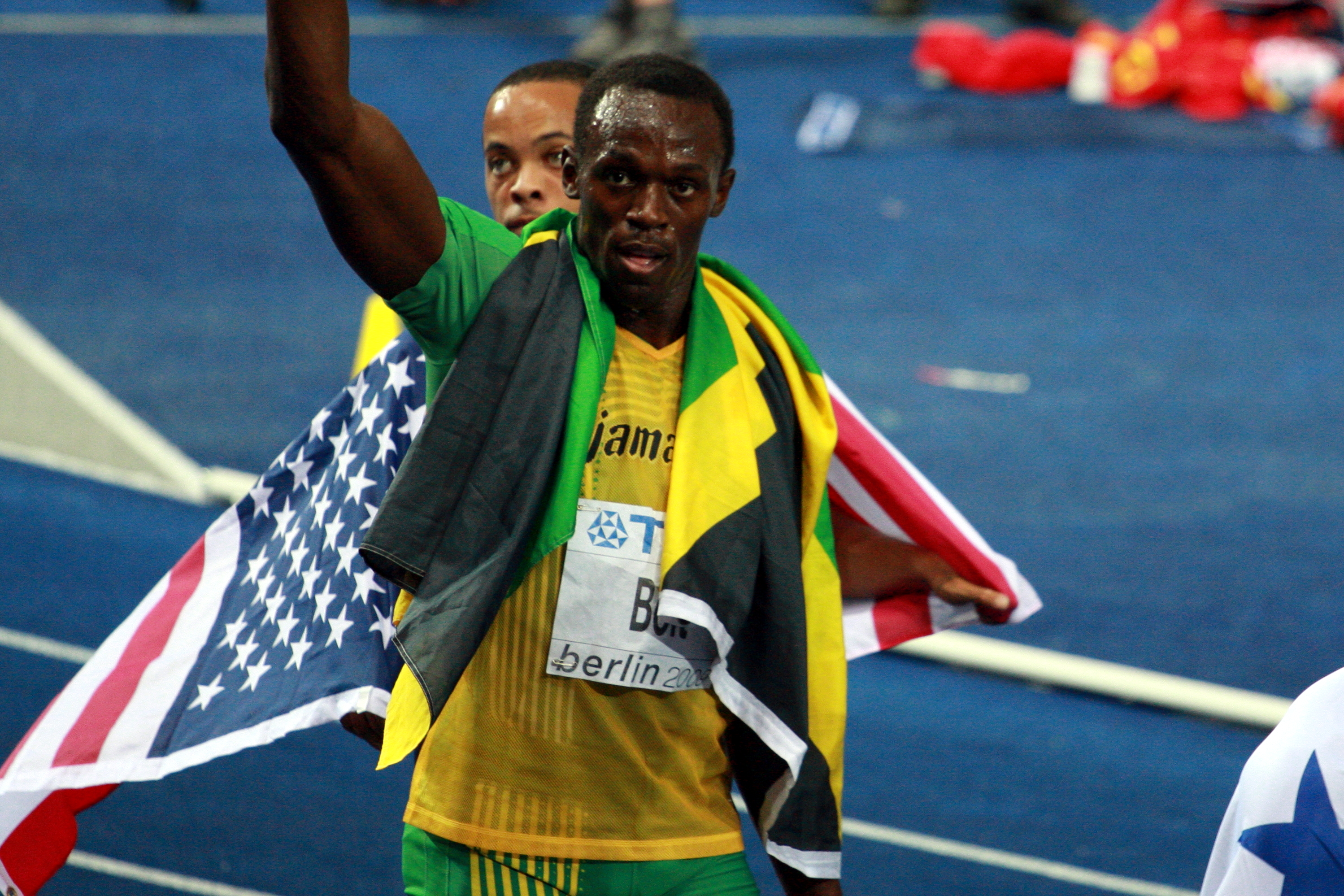 World Champion 2009